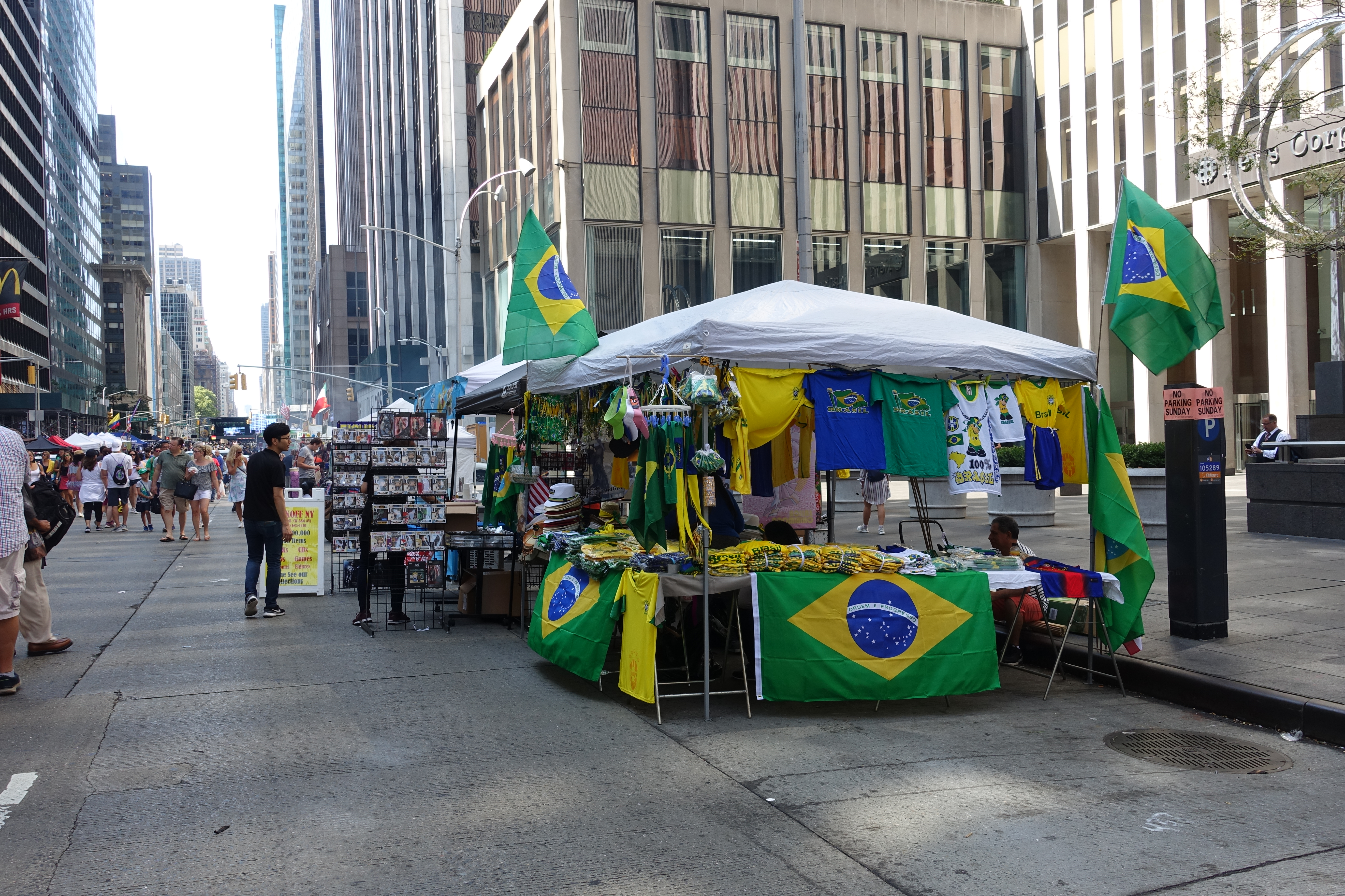 Brazilian Day 2018 New York, stand with flags and brazilian items